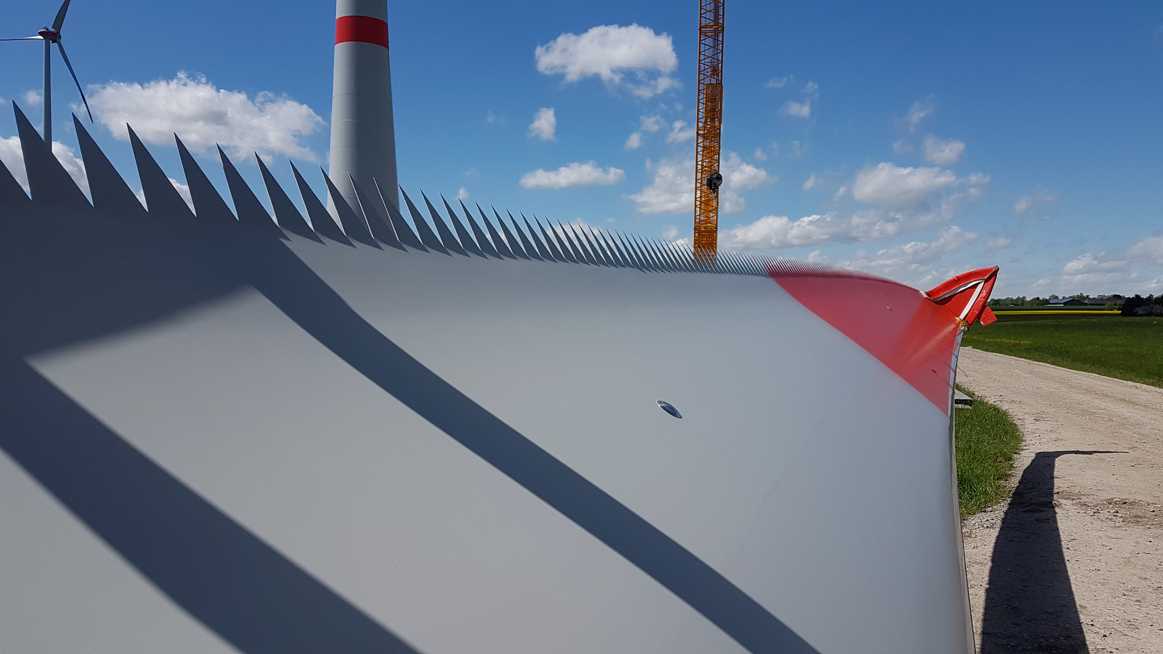 Rotor blade with chevrons (saw tooth patterns on the trailing edge) of an Enercon wind turbine at Rot am See